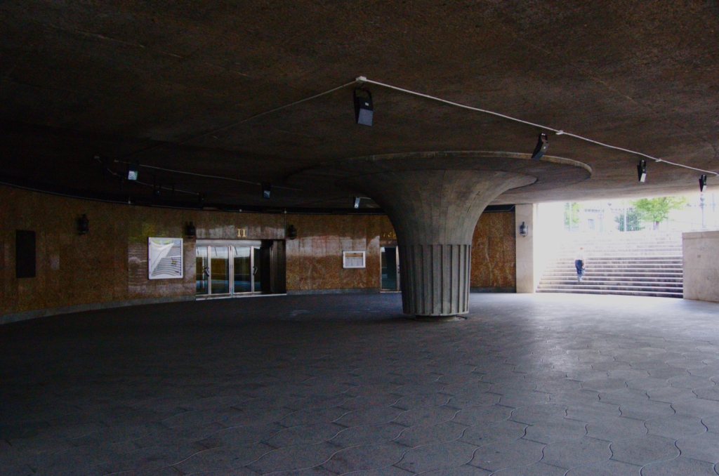 Entrance of Teatro Fernán Gómez at Columbus Square in Madrid (Spain).